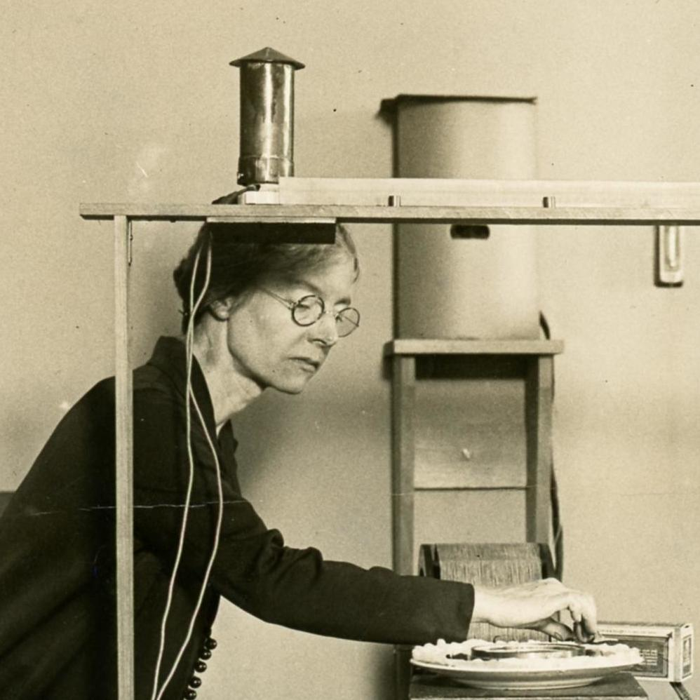 Louise Sherwood McDowell Date: 1909-1920; Identifier: WCA_2017_02_01_002; Contributor: Underwood& Underwood (Washington, D.C.); Format: 1 photographic print : b&w ; 7 1/4 x 9 1/4 in.